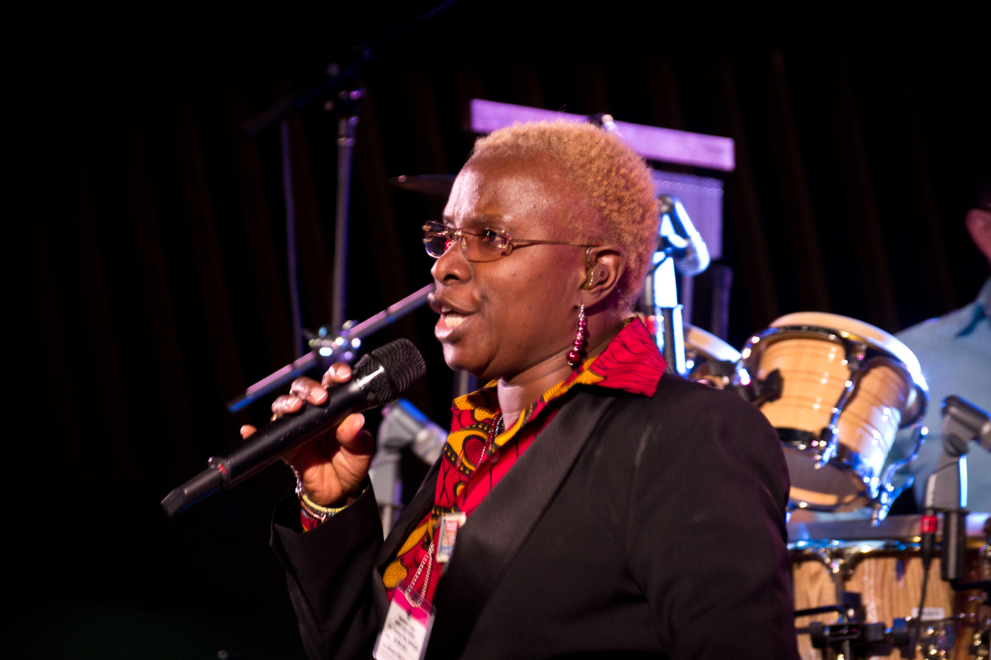 UNICEF Goodwill Ambassador Angelique Kidjo performs during a sound check at the United Nations, New York, for the “Raise Your Voice to end Female Genital Mutilation” concert, 28 February, 2012.